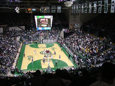 An interior shot of the Dale F. Halton Arena, home to the Charlotte 49ers' Basketball team.